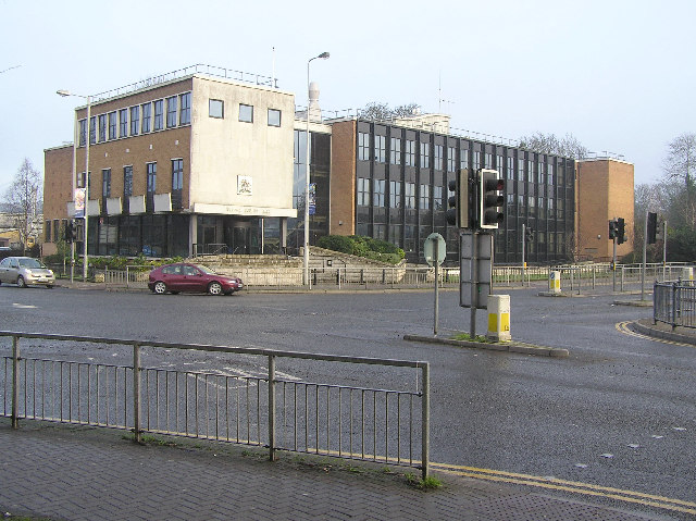 County Hall, Omagh. It is at the junction of Drumragh Avenue and Mountjoy Road. One of the main departments is the Planning Department. The rates office and the motor tax department were at the left hand side, but due to expansion, they re-sited to Scarffes Entry.